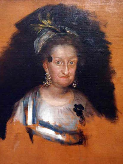 Maria Josefa of Spain; part of the famous Charles IV of Spain and His Family of 1800